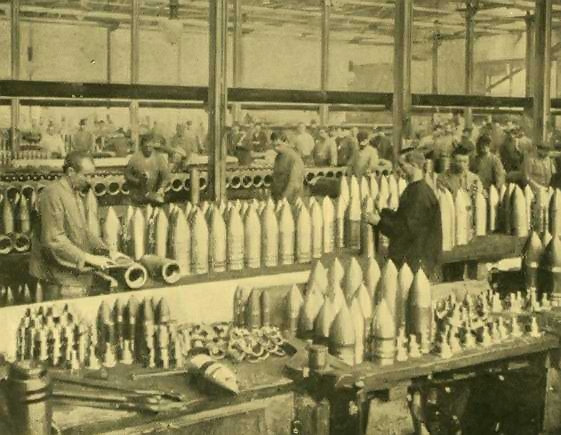 1905 image of Krupp Gunworks in Germany